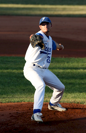 Joris Bert.